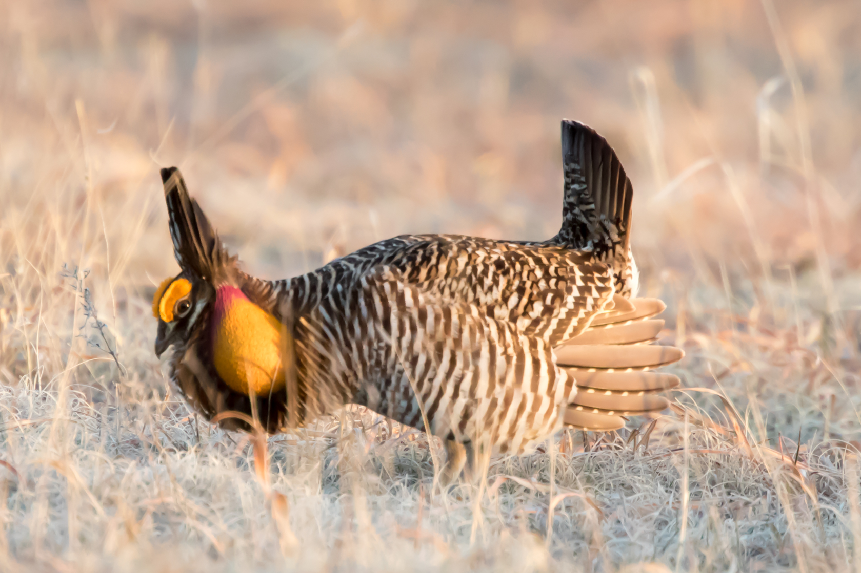 Kitzmiller Ranch, Wray, Colorado